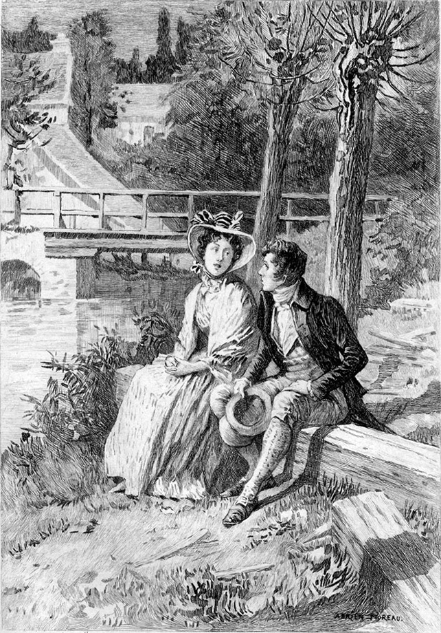 Title page of Honoré de Balzac's Eve and David, (1843).